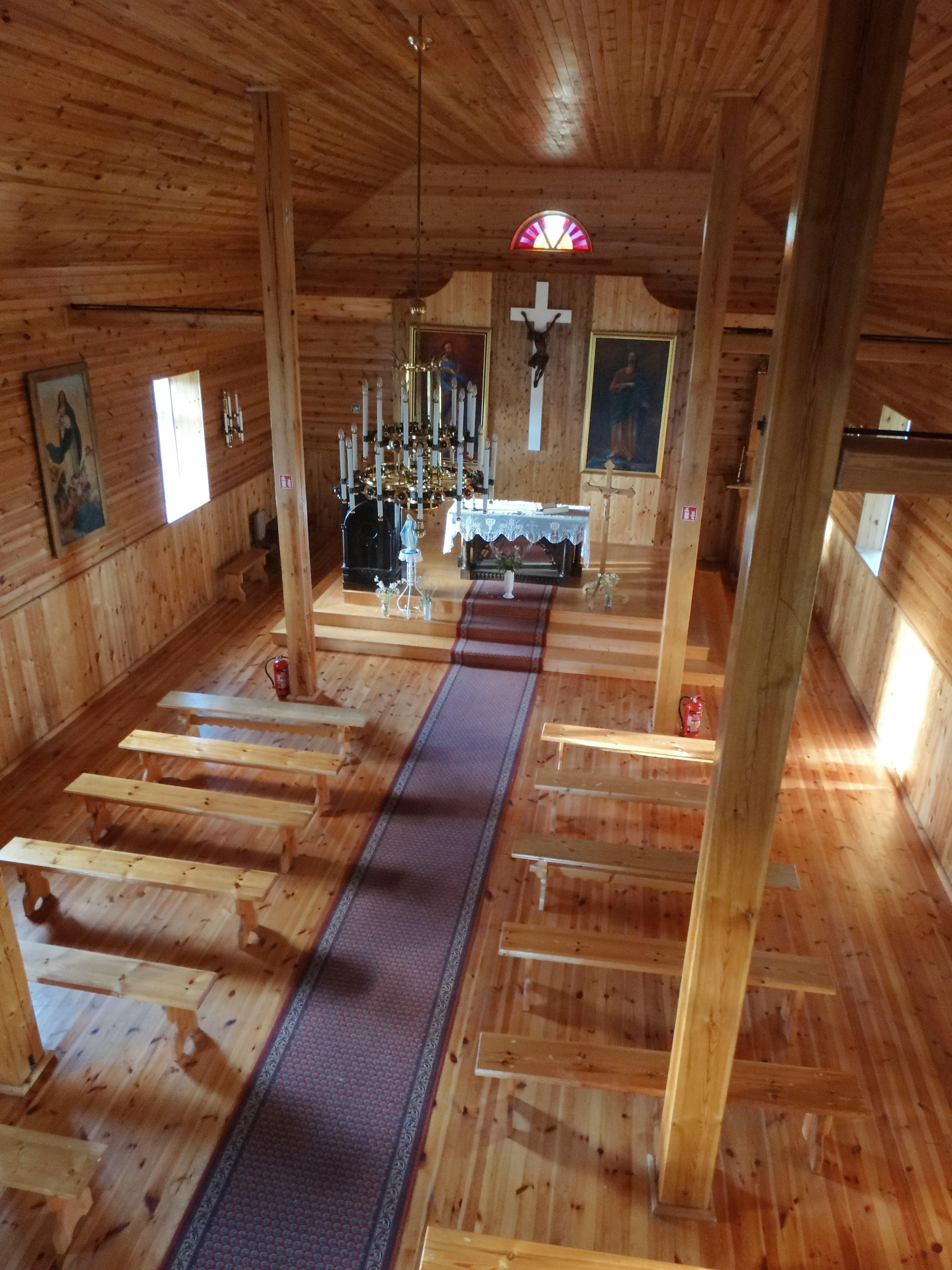 Chapel, Januliškis, Švenčionys District, Lithuania